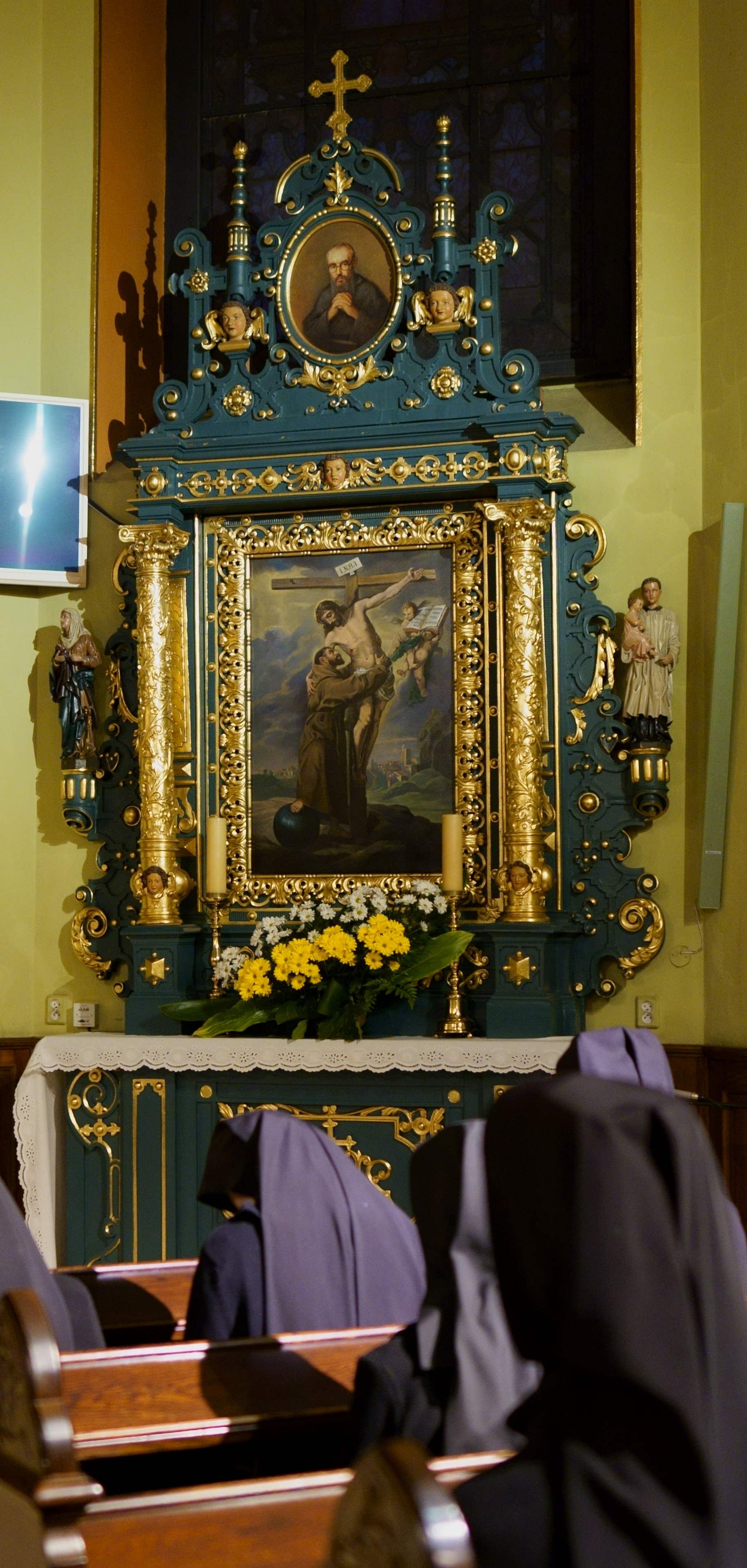 Church of Holy Heart of Jesus in Krakow (Garncarska St.)